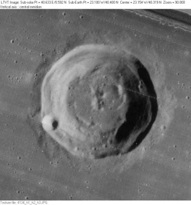 LO-IV-134H The bands in the upper right corner are a defect in the development of the Lunar Orbiter film.